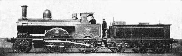 LNWR 2-2-2-0 66 Experiment, 3 cylinders compound locomotive, 1882.